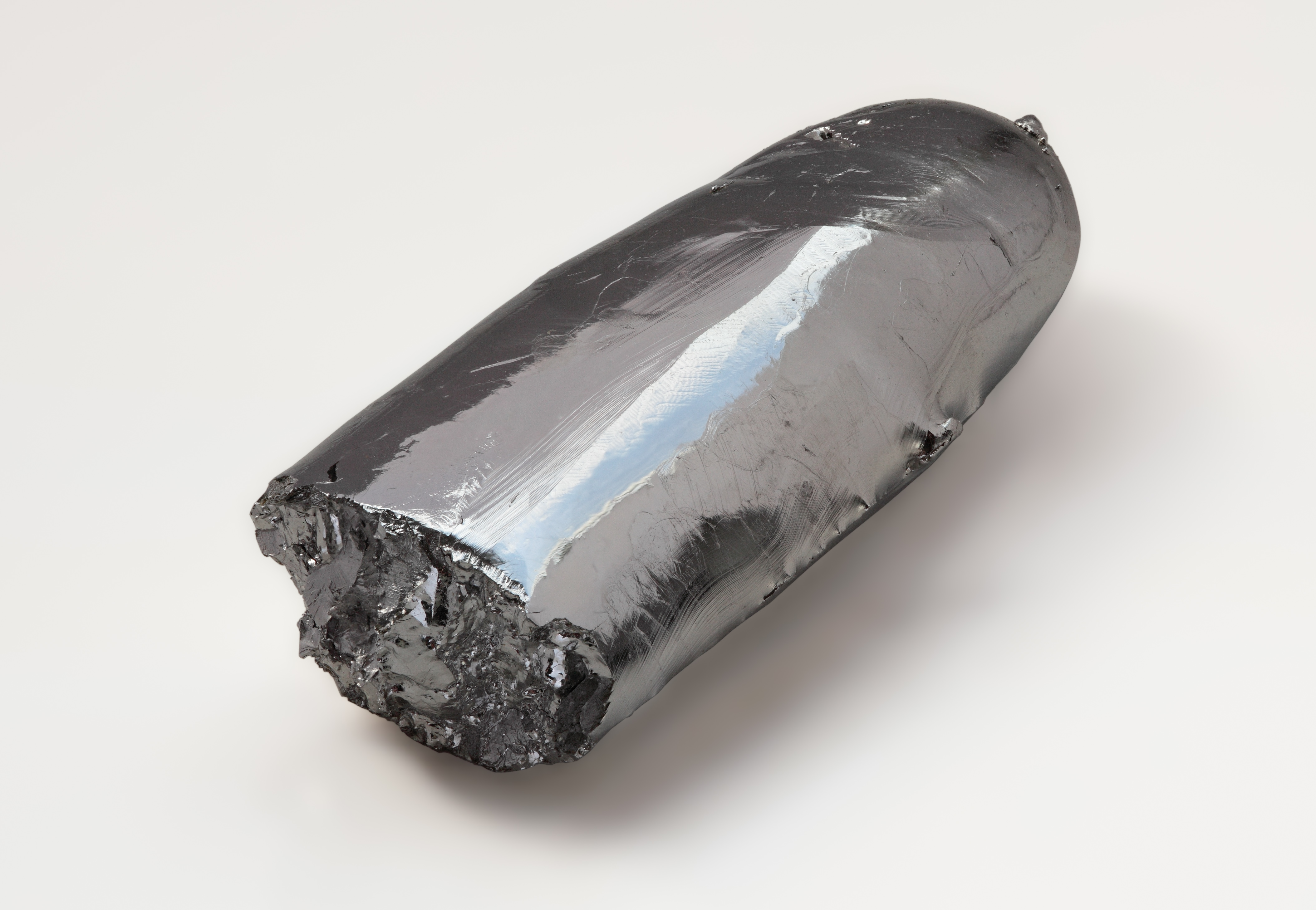 One half of a high-purity (99.99%), electron-beam-remelted ruthenium bar. Size ca. 40 × 15 × 10 mm, weight ca. 44 g.